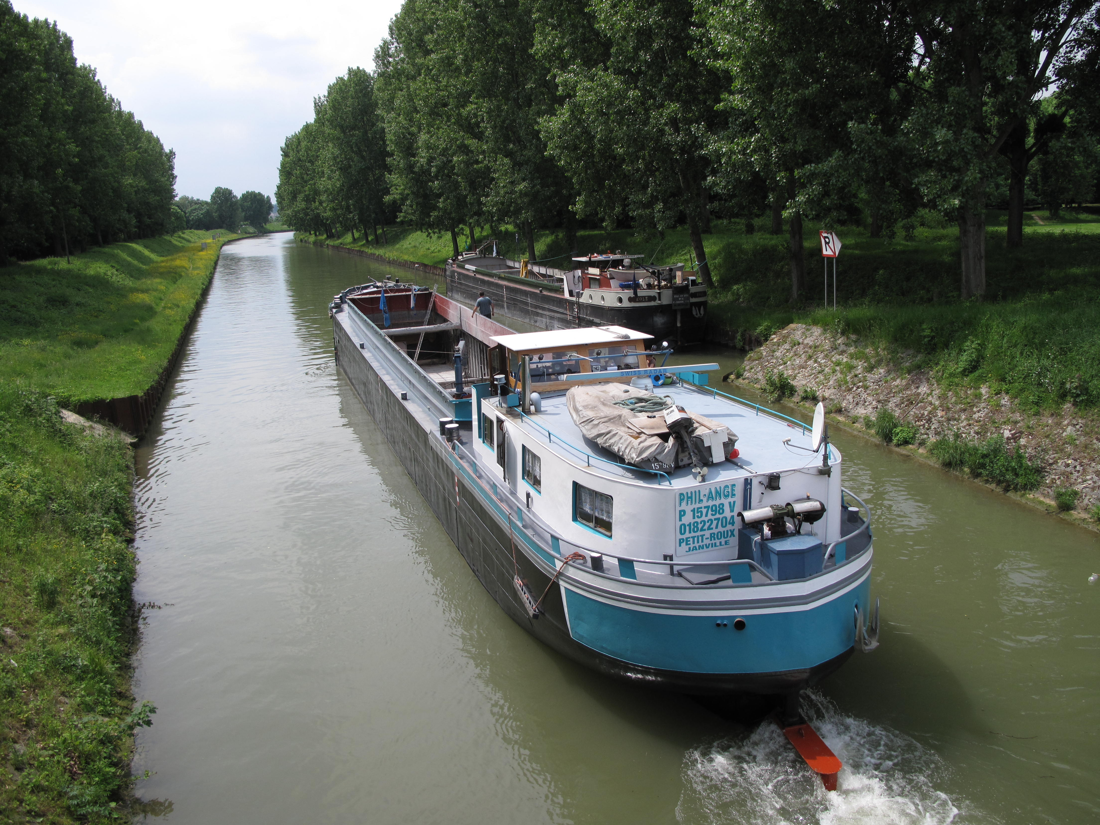 The PHIL-ANGE at the start of the canal de Chelles, in Vaires-sur-Marne, France ENI Number: 01822704